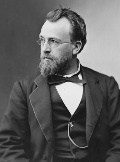 William Ward (Pennsylvania Congressman)